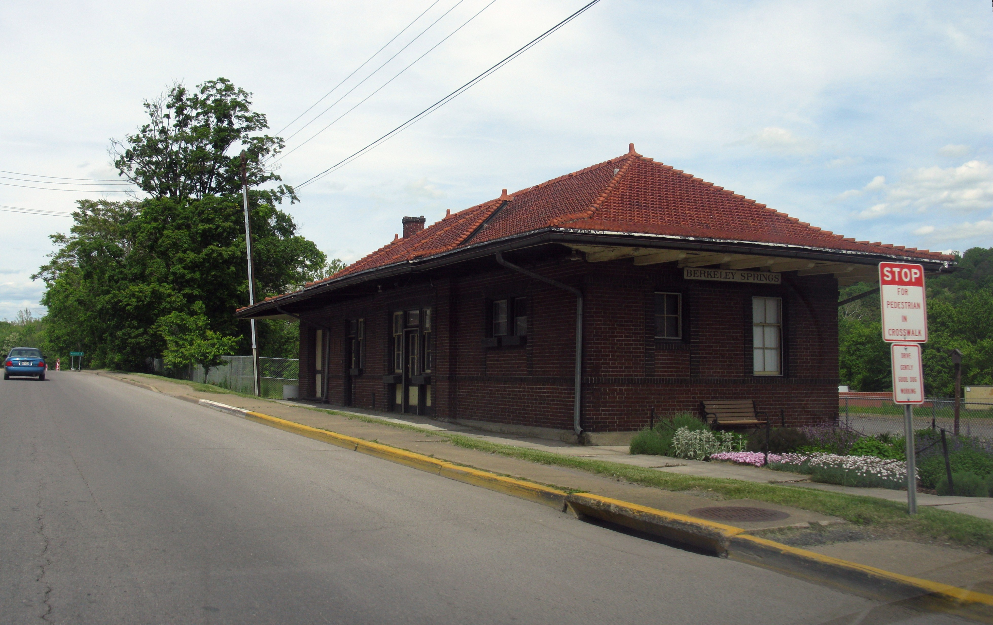 Train station, Bath (Berkeley Springs), West Virginia